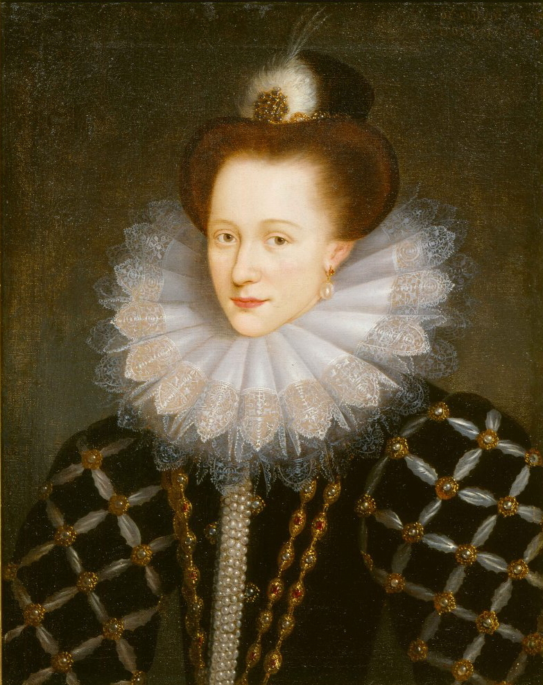 Emelia van Nassau